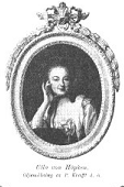 Portrait of Ulla von Höpken (1749-1810)